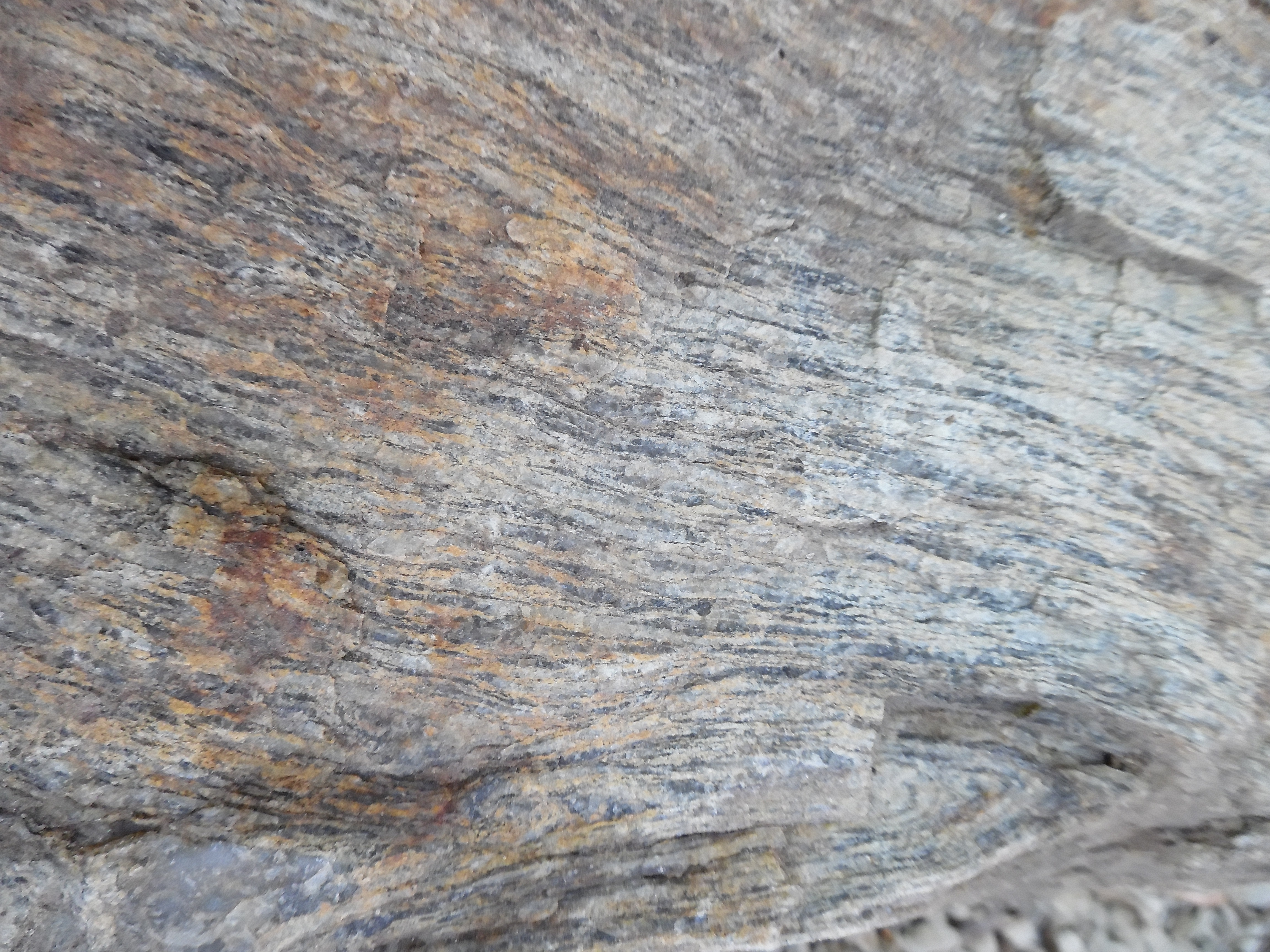 Leptynite from Tuquet hill east of Châlus, Haute-Vienne, France. This high-grade tectonite belongs to the Lower Gneiss Unit of the Limousin and shows isoclinal flow folding.